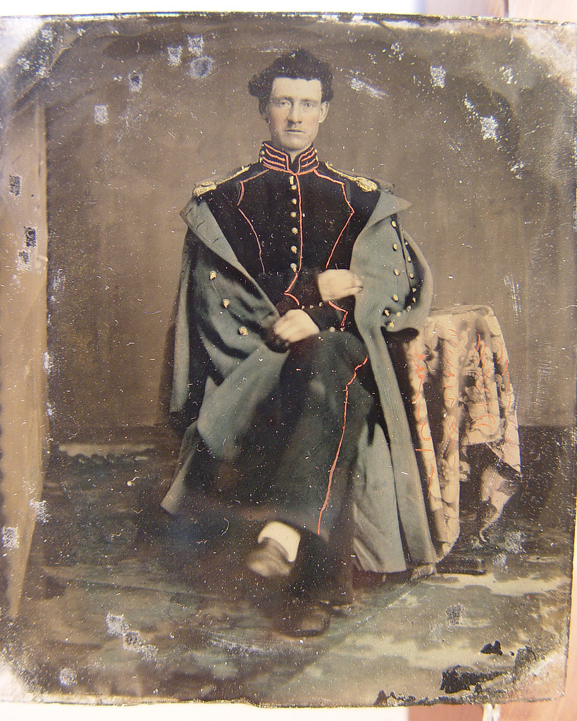 Period photograph (sixth-plate Ambrotype, hand-colored ; 9.2 x 8.1 cm; removed from mat case) showing identified soldier of Independent Battery 'B' (Artillery), Pennsylvania Volunteers, Private William P. Haberlin, who was killed in action on Dec. 16, 1864, at Nashville, Tennessee. Handwritten poem found with photograph reads: Now to the field again I'll go, for the union to defend, until Jeff Davis is made to know, his kingdom is about to end. And now if I would not live, to hear f[r]eemen shout for joy, this miniature to you I give, in memory of a soldier boy. William P. Haberlin.